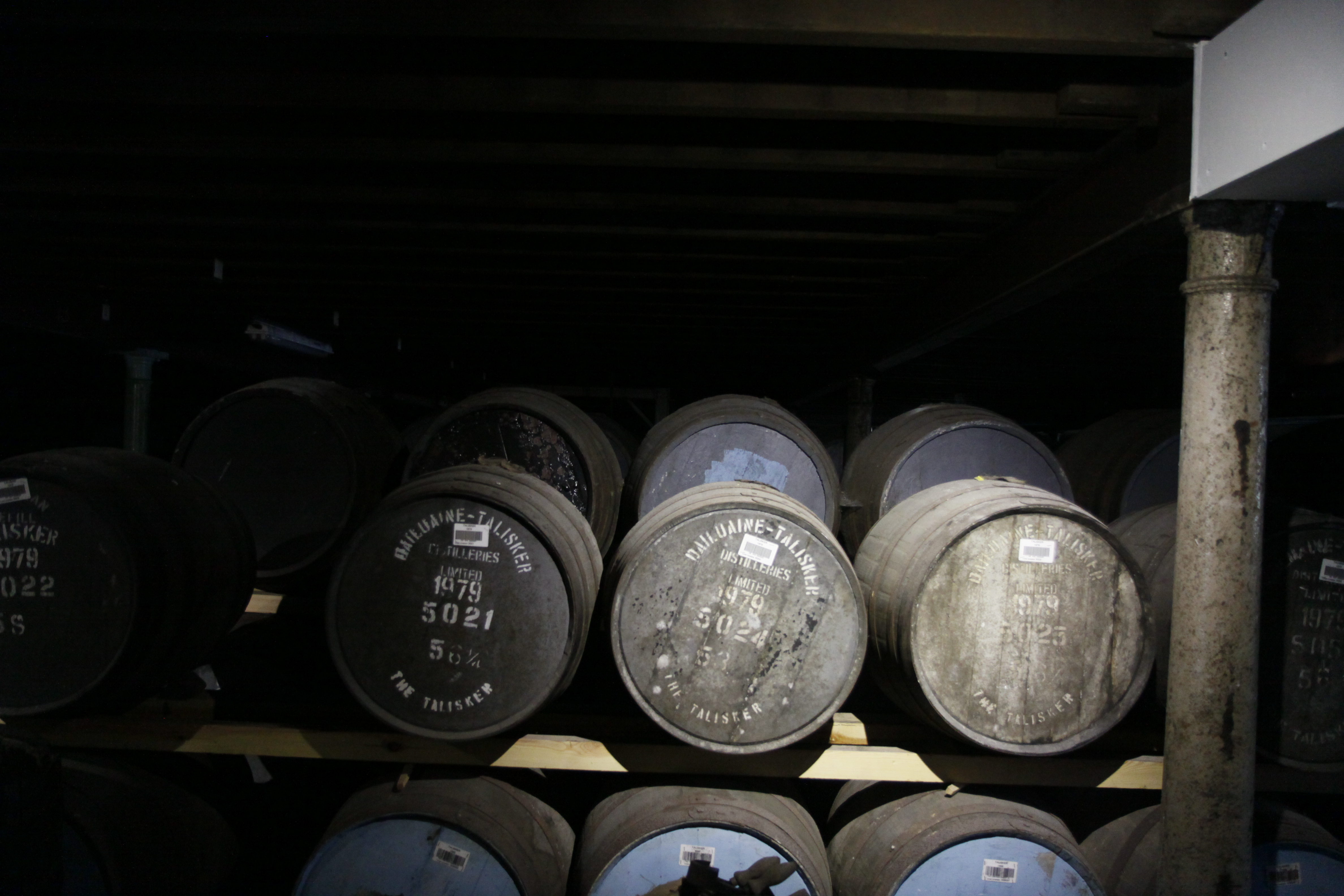 In the treasure chamber of Talisker